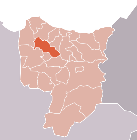 Temsaman, driouch province, morocco2